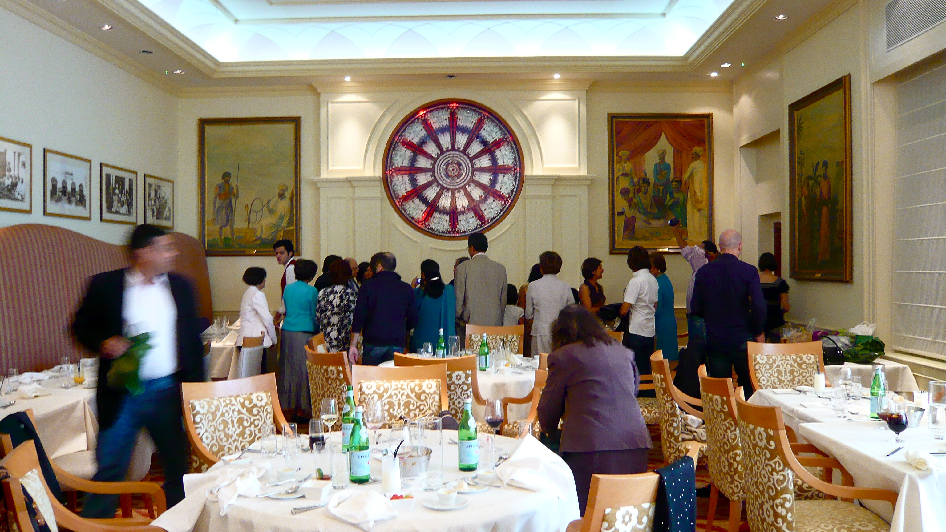 The Bombay Brasserie has been recently renovated